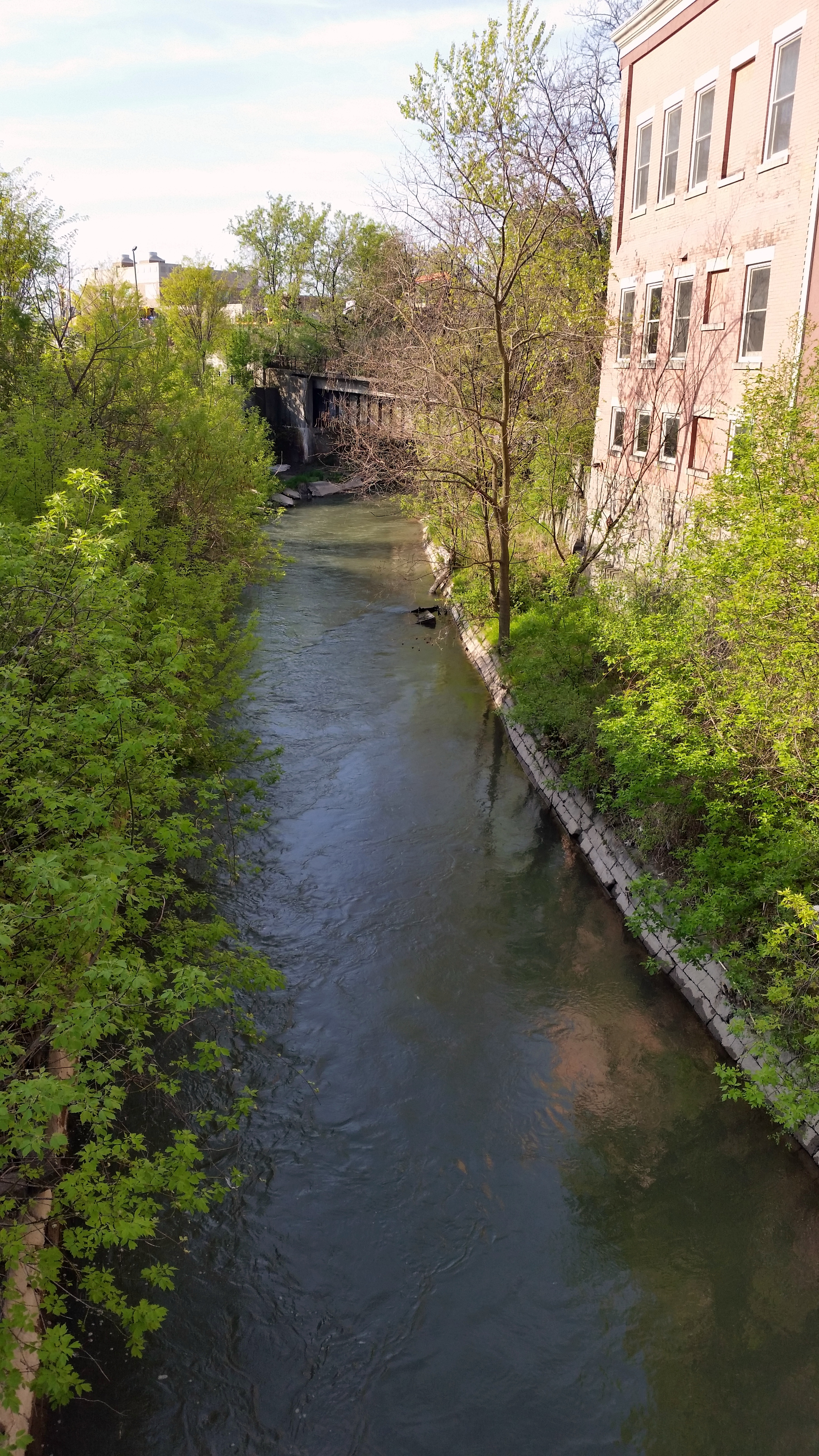 Onondaga Creek near Armory Square, Syracuse, New York